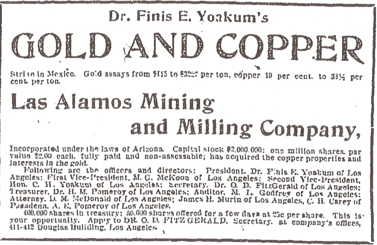 Advertisement for stock offering in Las Alamos Mining and Milling Co.